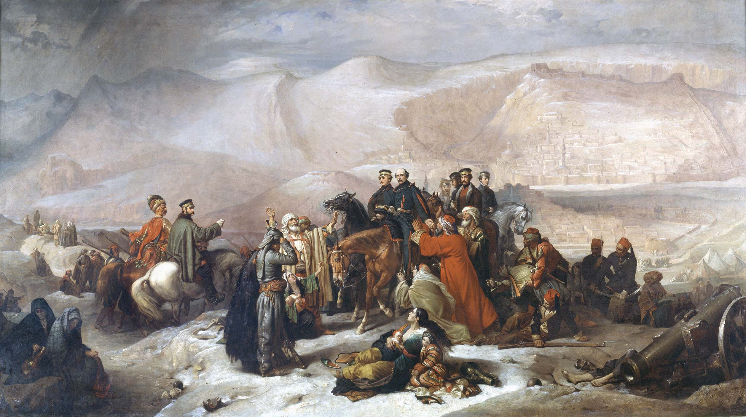 In June 1855, during the Crimean War (1854–1856), Kars, a city in north-eastern Turkey, was besieged by a Russian army of 25,000 men. Demoralised by their defeats at the hands of the Russians, the Turks left the defence of Kars to Brevet Colonel (later General Sir) William Fenwick Williams who was the British commissioner with the Ottoman Army in Anatolia. Through his brilliant organisation, the garrison was able to repulse three major Russian attacks, but eventually cold, famine and an outbreak of cholera forced it to surrender on 26 November 1855. In the foreground, the commander of the garrison of Kars, the british brevet colonel William Fenwick Williams. In the background, the governor of the Caucasus and the commander-in-chief of the Caucasian army (from the end of 1854), the russian general of the infantry N.N. Muravyov, accepting the capitulation of Kars.